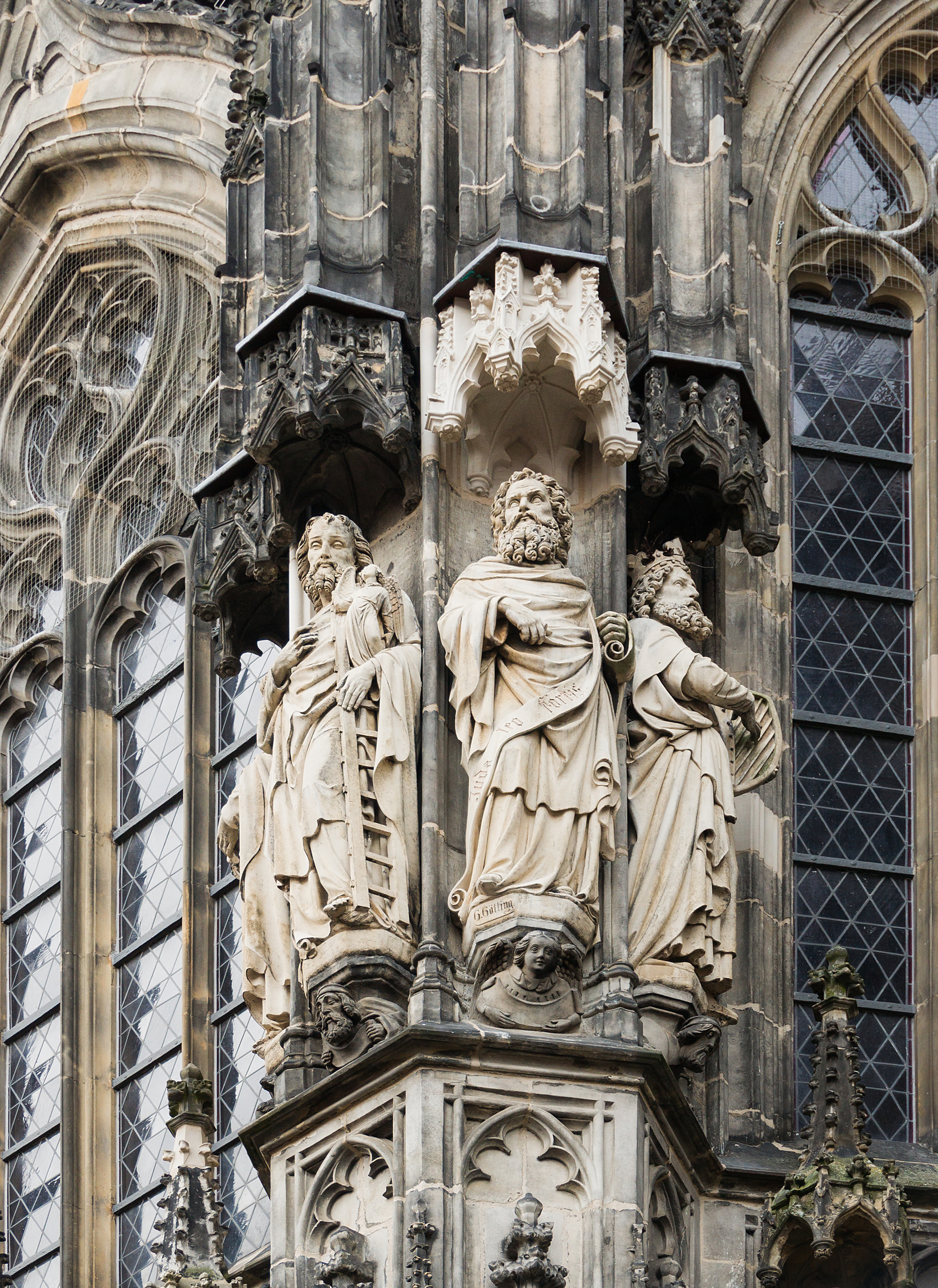 Three statues, Jacob, Juda, David (by Gottfried Götting 1840 - 1879), Cathedral of Aachen, Germany.